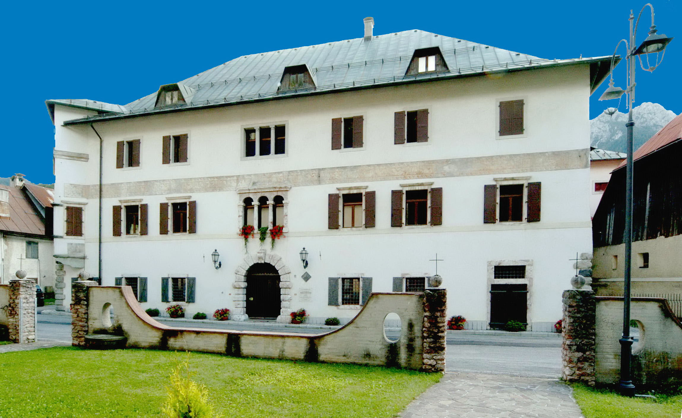 Venetian Palace in Malborghetto, Val Canale, province of Udine, region Friuli-Venezia Giulia, Italy